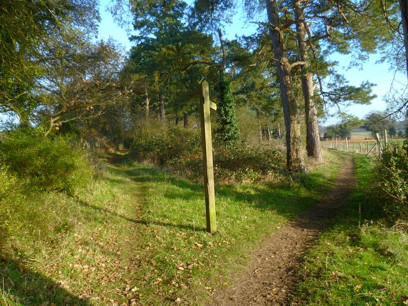 Footpath junction on the North Downs Way